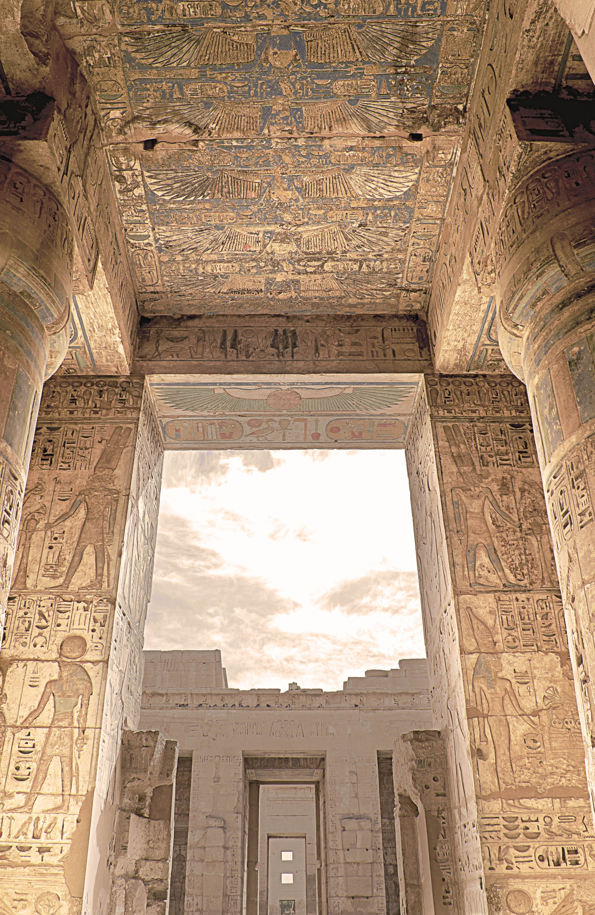 The Mortuary Temple of Ramesses III at Medinet Habu is an important New Kingdom period structure in the West Bank of Luxor in Egypt. Aside from its size and architectural and artistic importance, the temple is probably best known as the source of inscribed reliefs depicting the advent and defeat of the Sea Peoples during the reign of Ramesses III.